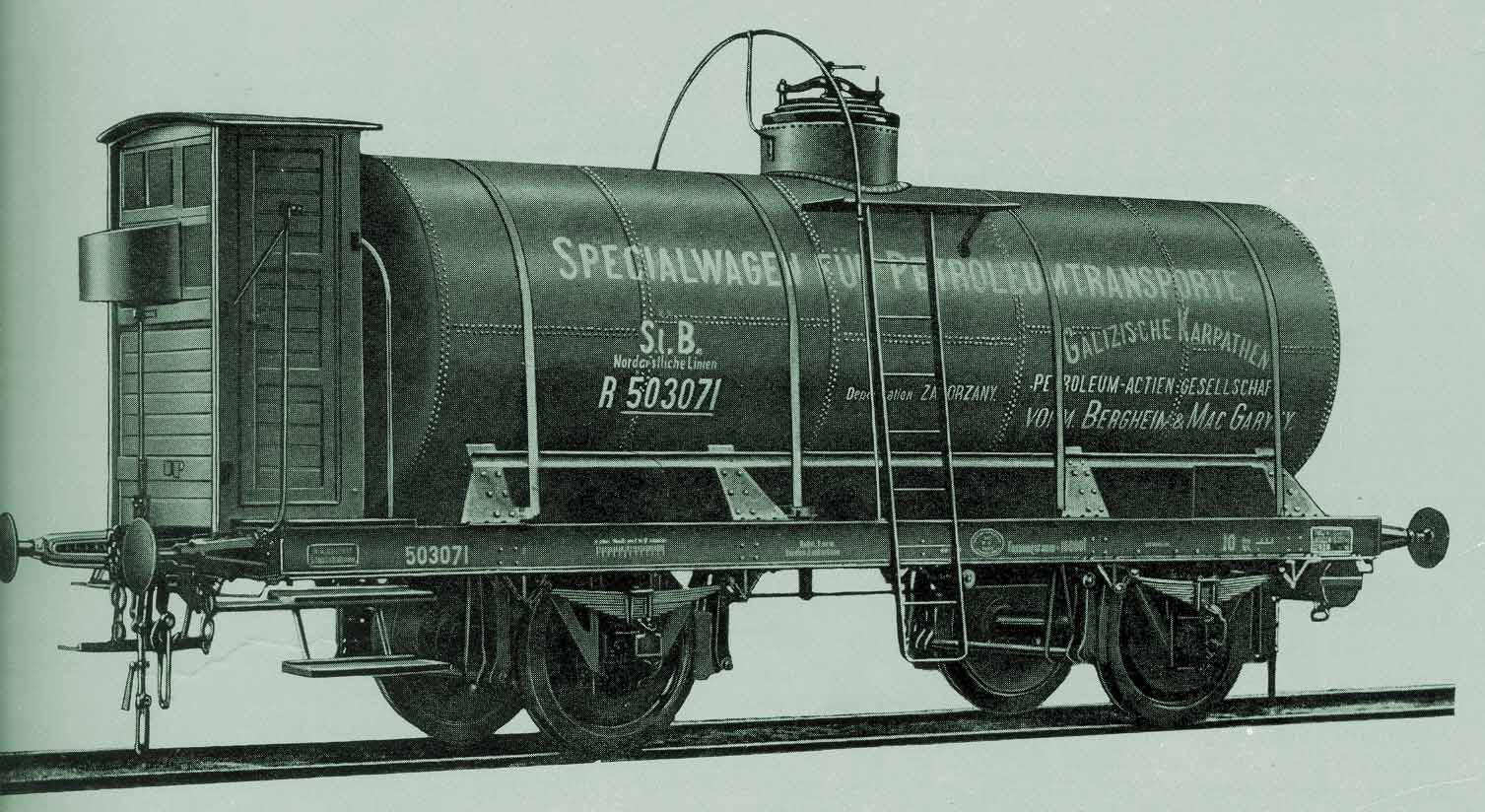 Railway tank car made by Rába, 1897, Győr, Hungary